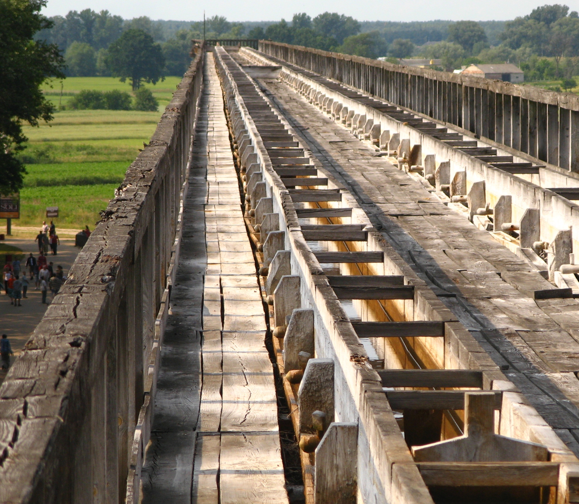 Graduate tower in Ciechocinek, Poland